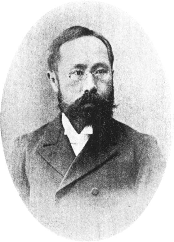 Mr. Toshihide Shinoda, professor of the Women's Higher Normal School.